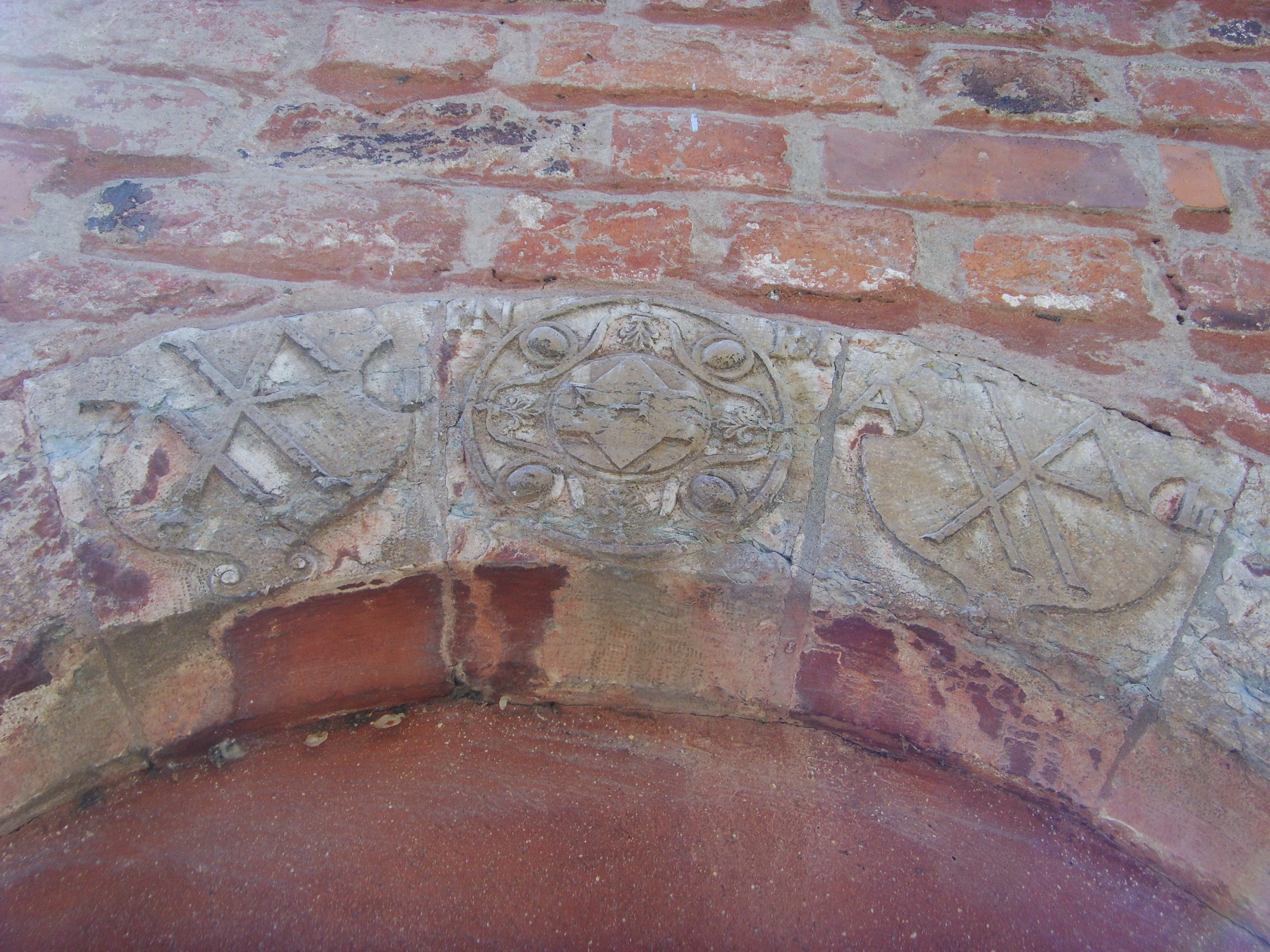 Vadstena